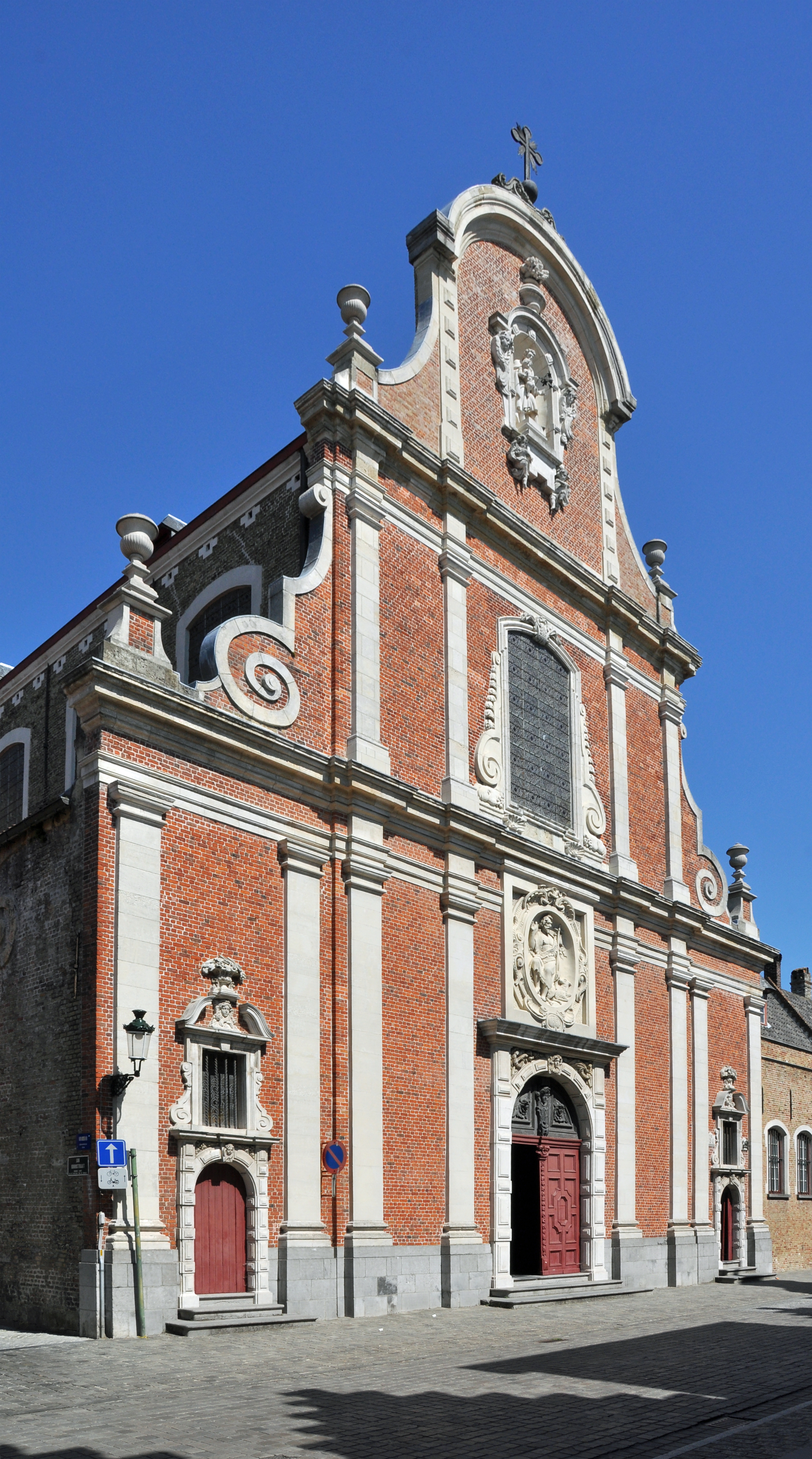 Bruges (Belgium): Carmelites church